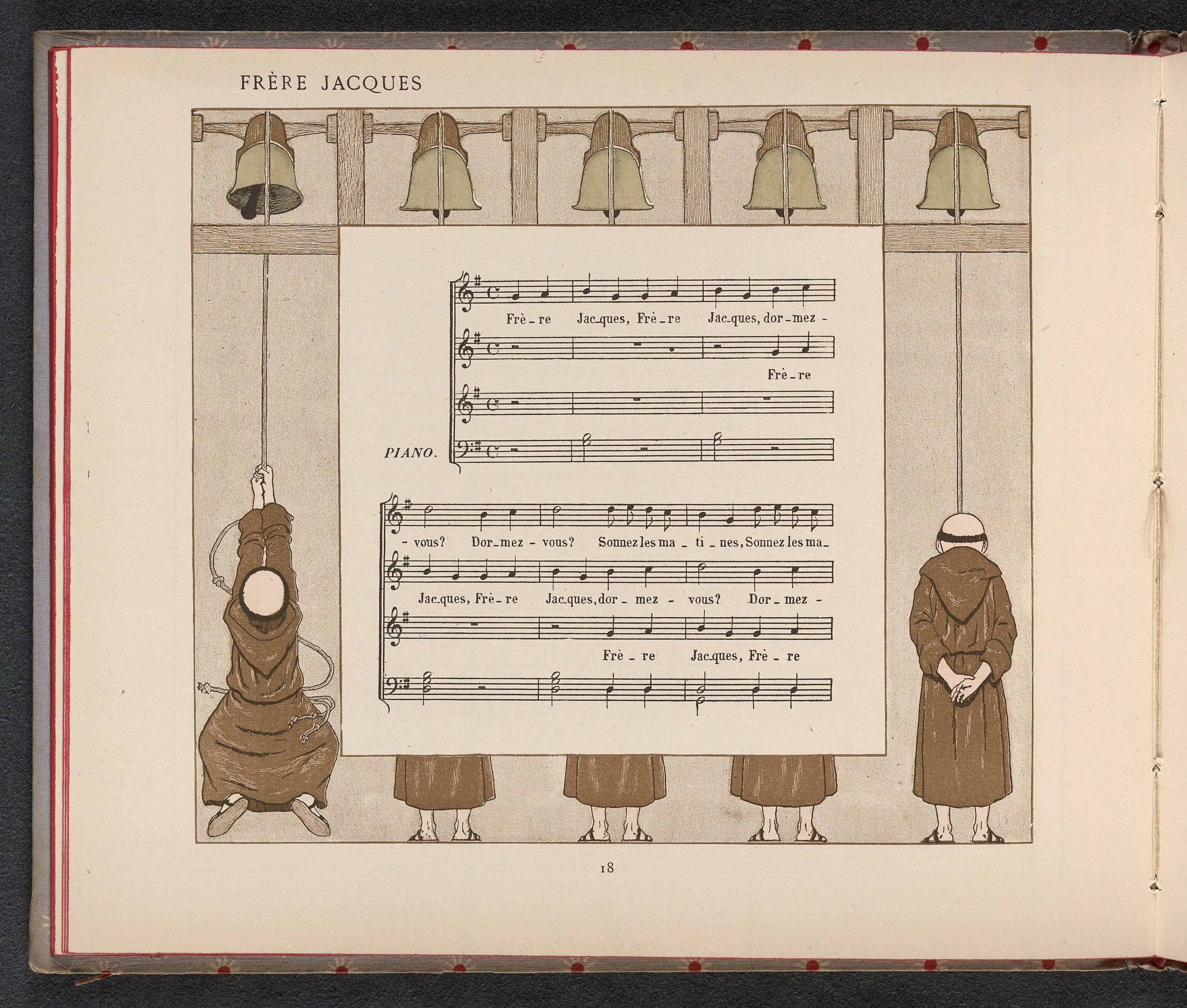 "Frère Jacques" (page 1 of 2), sheet music with illustration from a French children's book Vieilles Chansons pour les Petits Enfants: Avec Accompagnements (Old Songs for Small Children with Accompaniments).